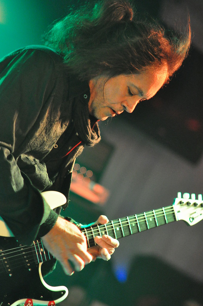 Jake E. Lee live with the Red Dragon Cartel at the Obsession Lounge in Ottawa, Ontario, Canada